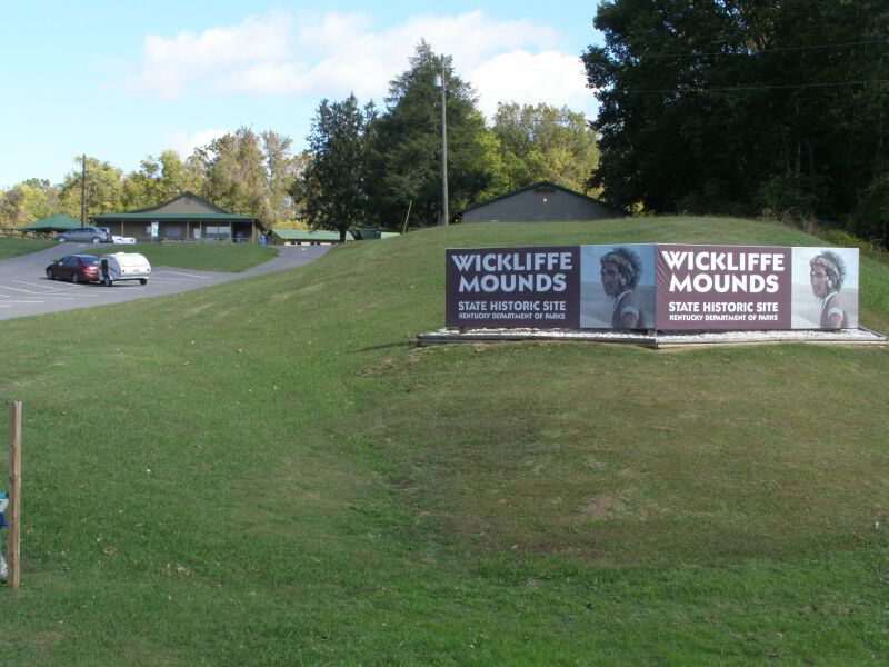 Entrance to Wickliffe Mounds State Historic Site